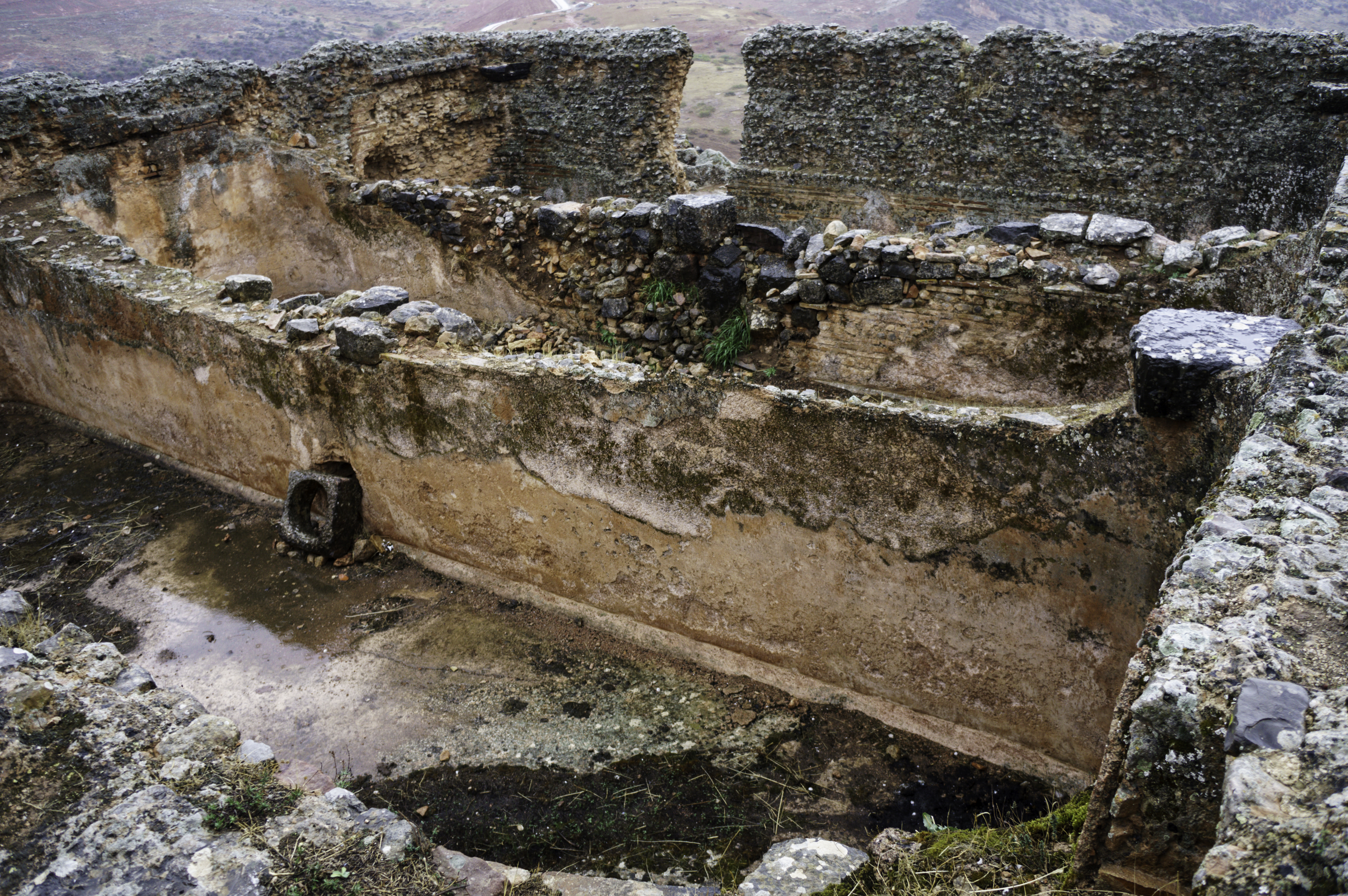 Cisterns - Tiddis (Castellum Tiditanorum)